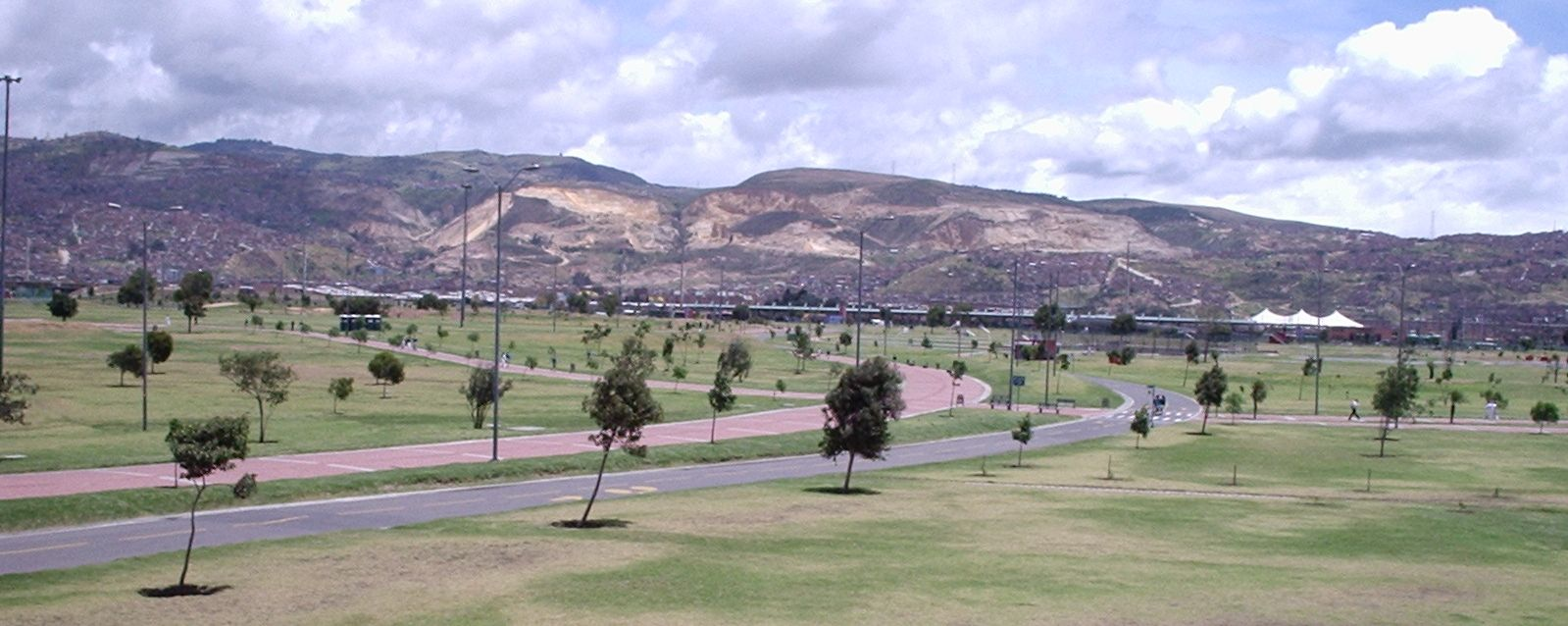 El Tunal Park photo